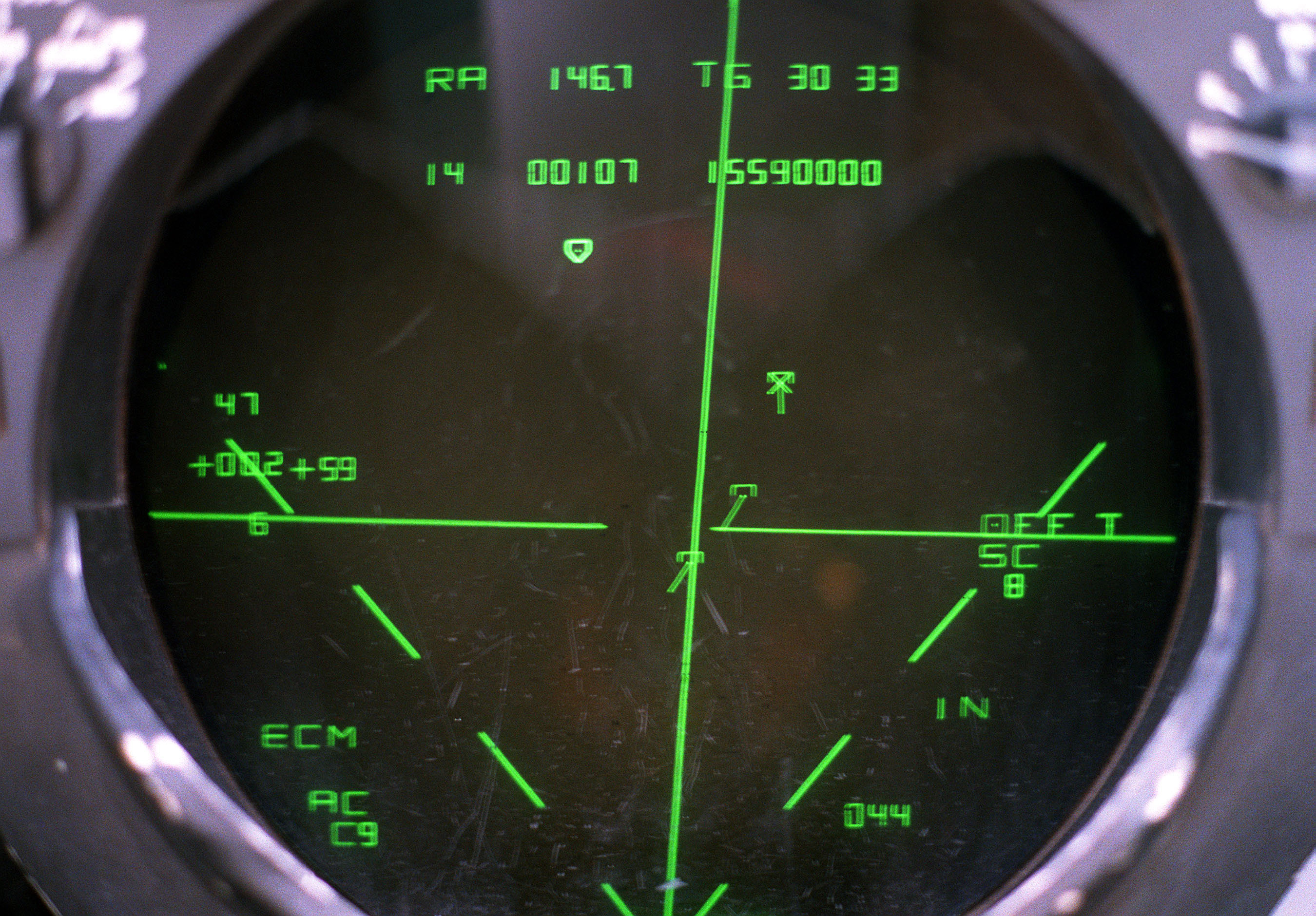 A view of a tactical information display (TID) in the cockpit of a U.S. Navy Grumman F-14A Tomcat aircraft.